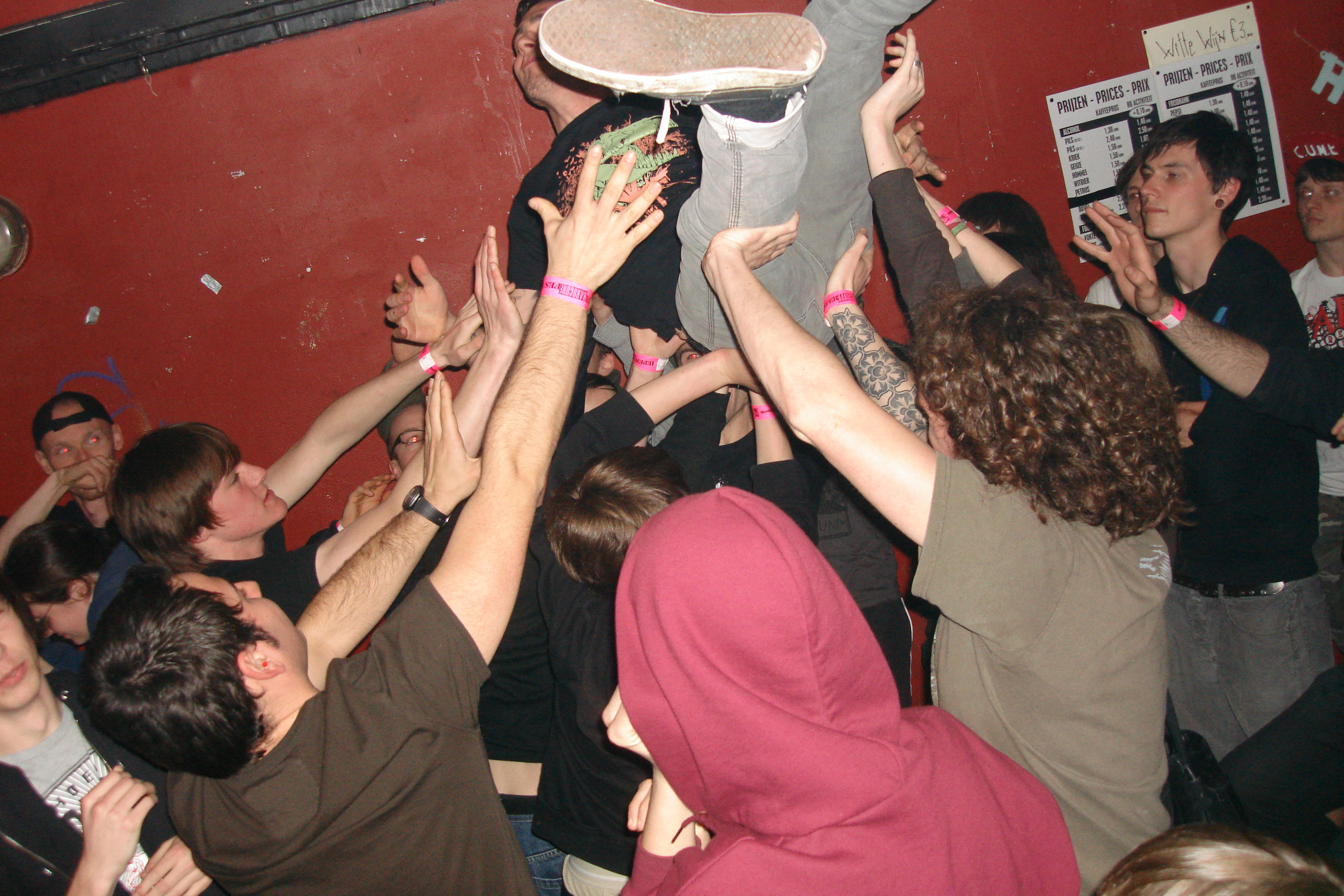 crowdsurfing